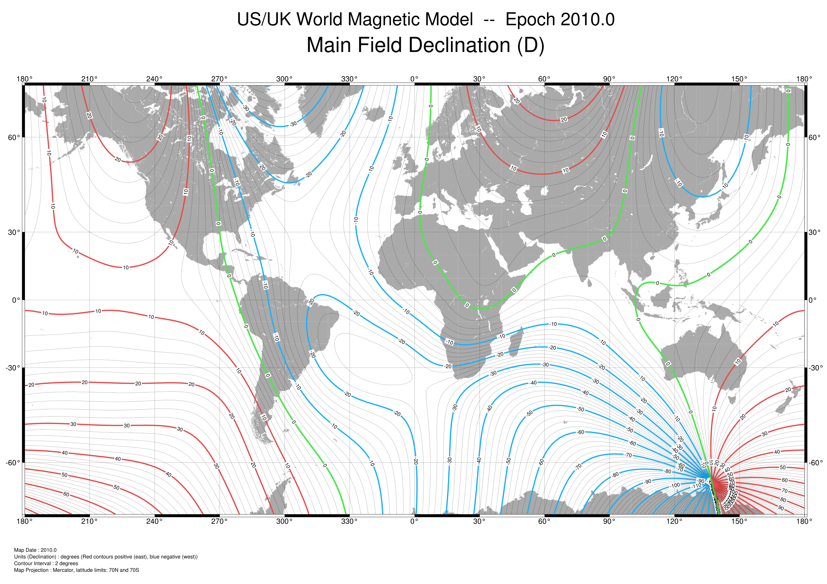 US/UK World Magnetic Model -- Epoch 2010.0 Main Field Declination (D)